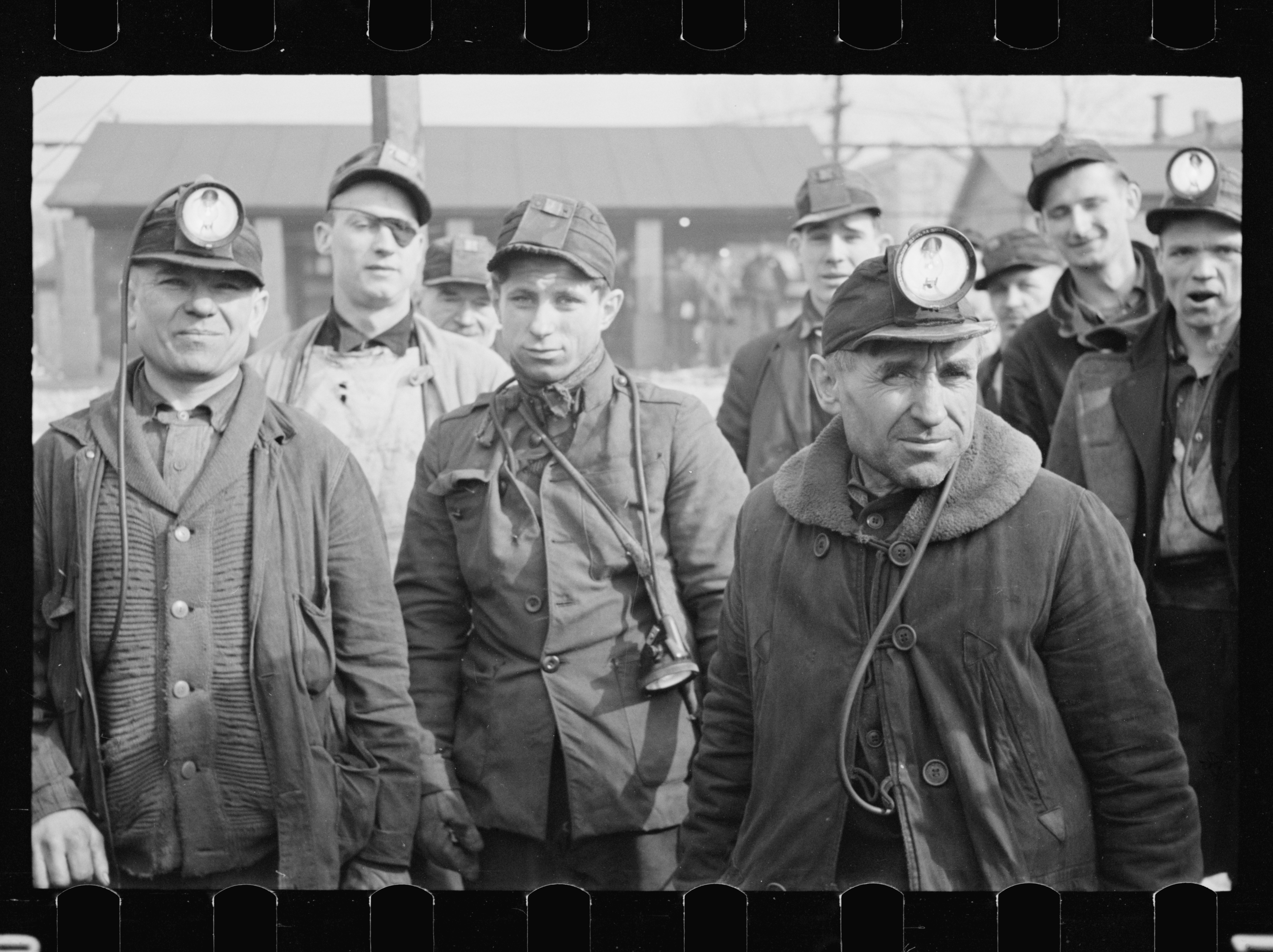 Miners at American Radiator Mine, Mount Pleasant, Westmoreland County, Pennsylvania Digital ID- (digital file from original neg.) fsa 8a00946 http- loc.pnp fsa.8a00946